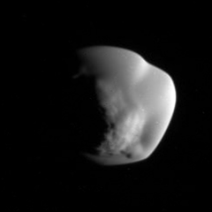 Narrow Angle Camera image of Atlas. Adapted from source images. Imaged from 181,000 km with clear filters, about 1km per pixel.